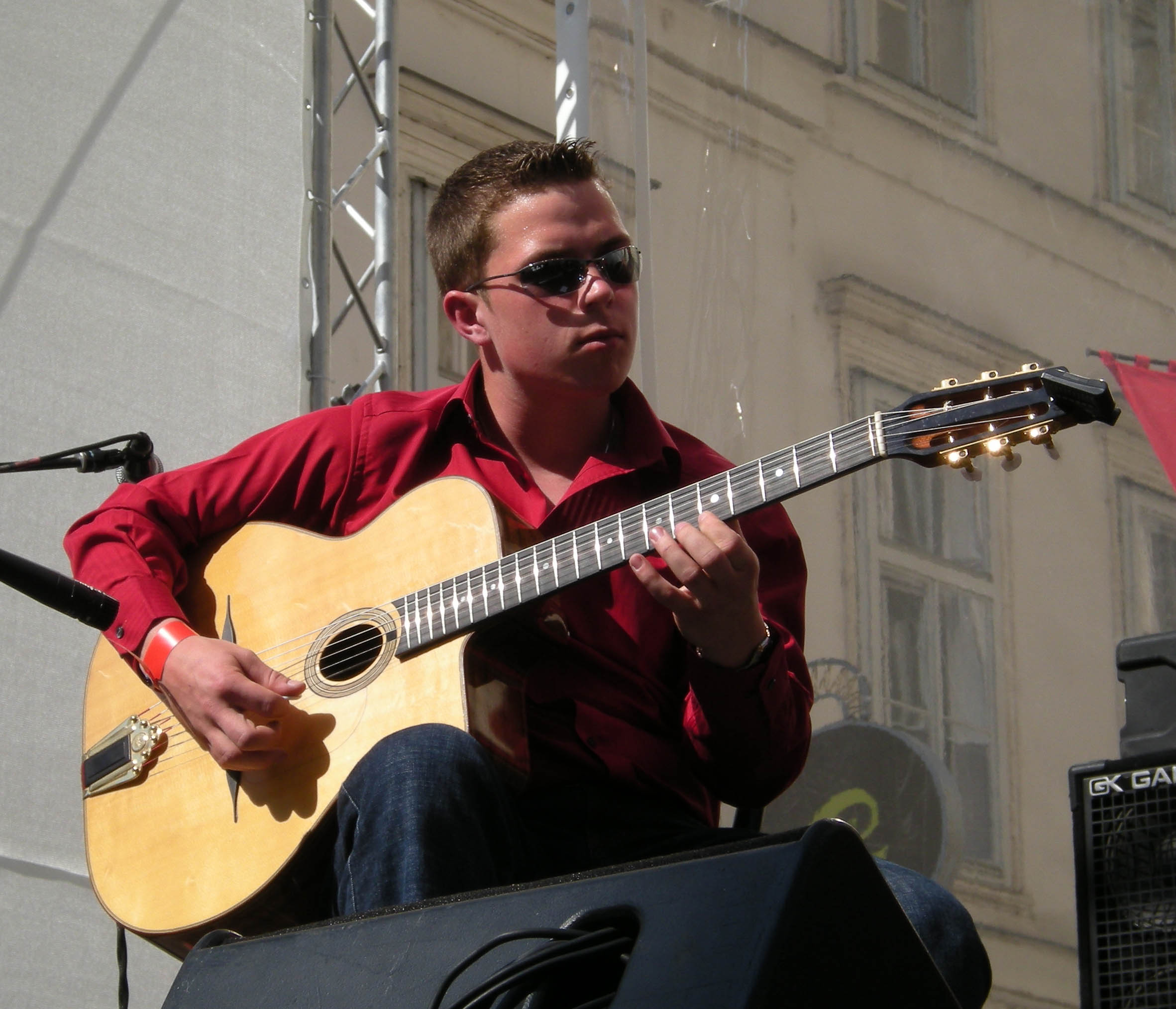 Austrian Diknu Schneeberger Trio performing at Vienna's annual Stadtfest Note: Camera time is set on UTC, which is local time -2.